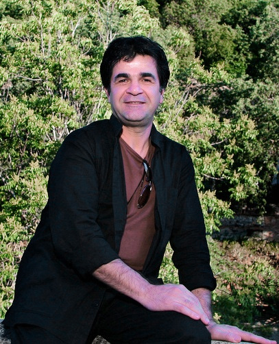 The iranian filmmaker member of the jury of the first edition